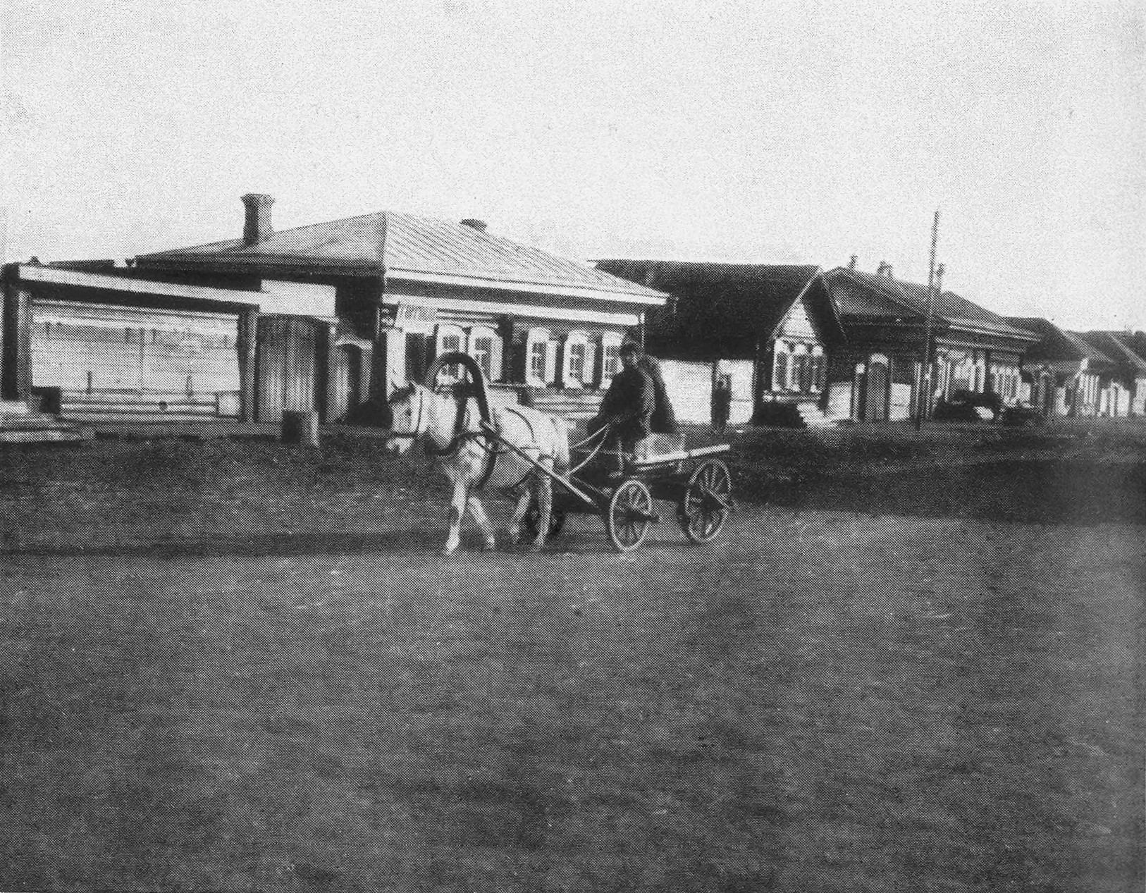 Street in Tulun